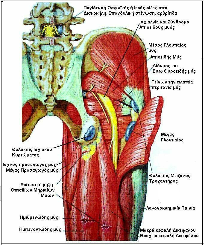 Types of Sciatica